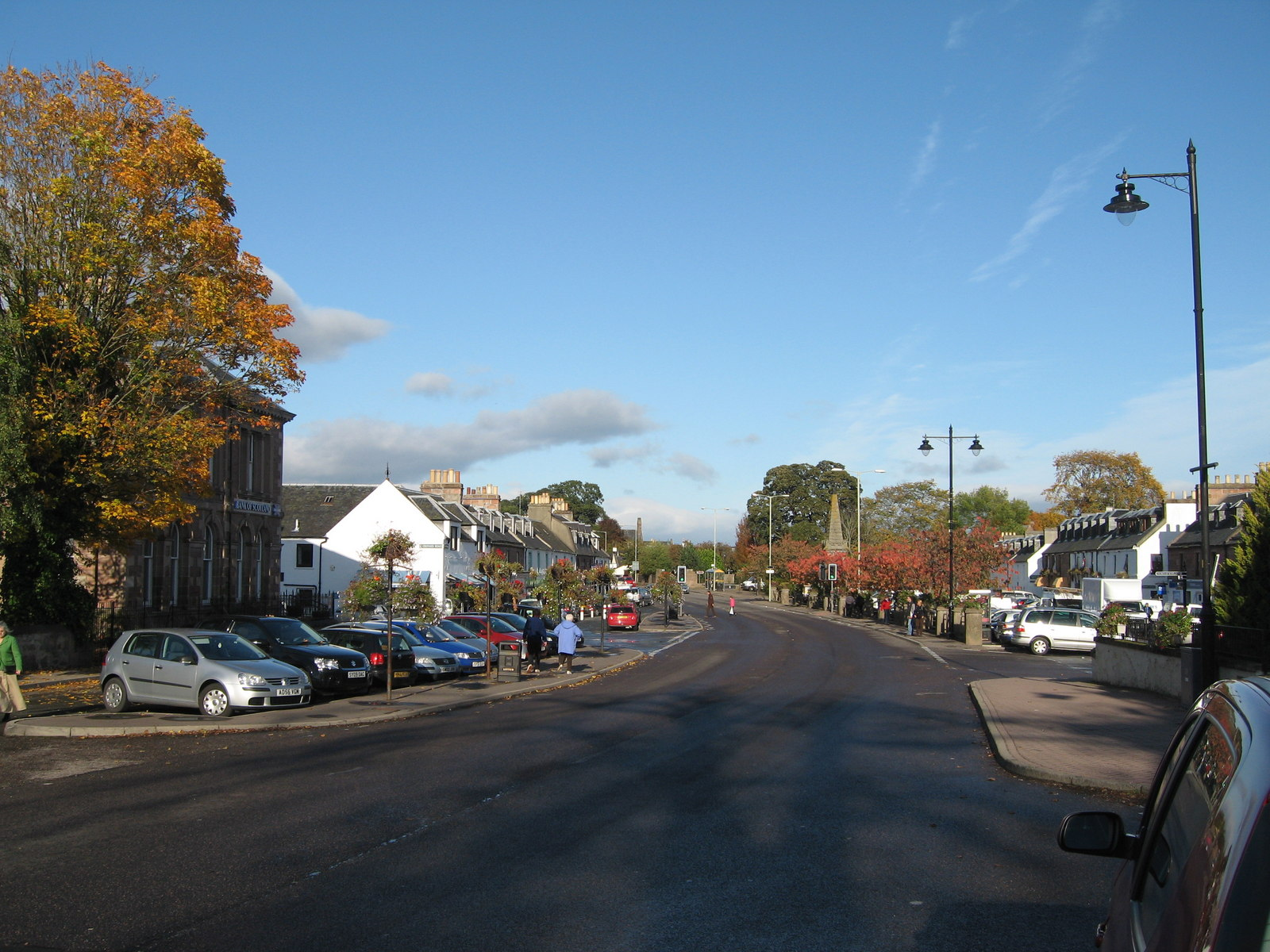 The Square, Beauly, in autumn This is the centre of Beauly and most of the shops are in or near The Square. The main road through The Square leads to Muir of Ord. The ruins of the Valliscaulian priory are behind the tall trees on the right.